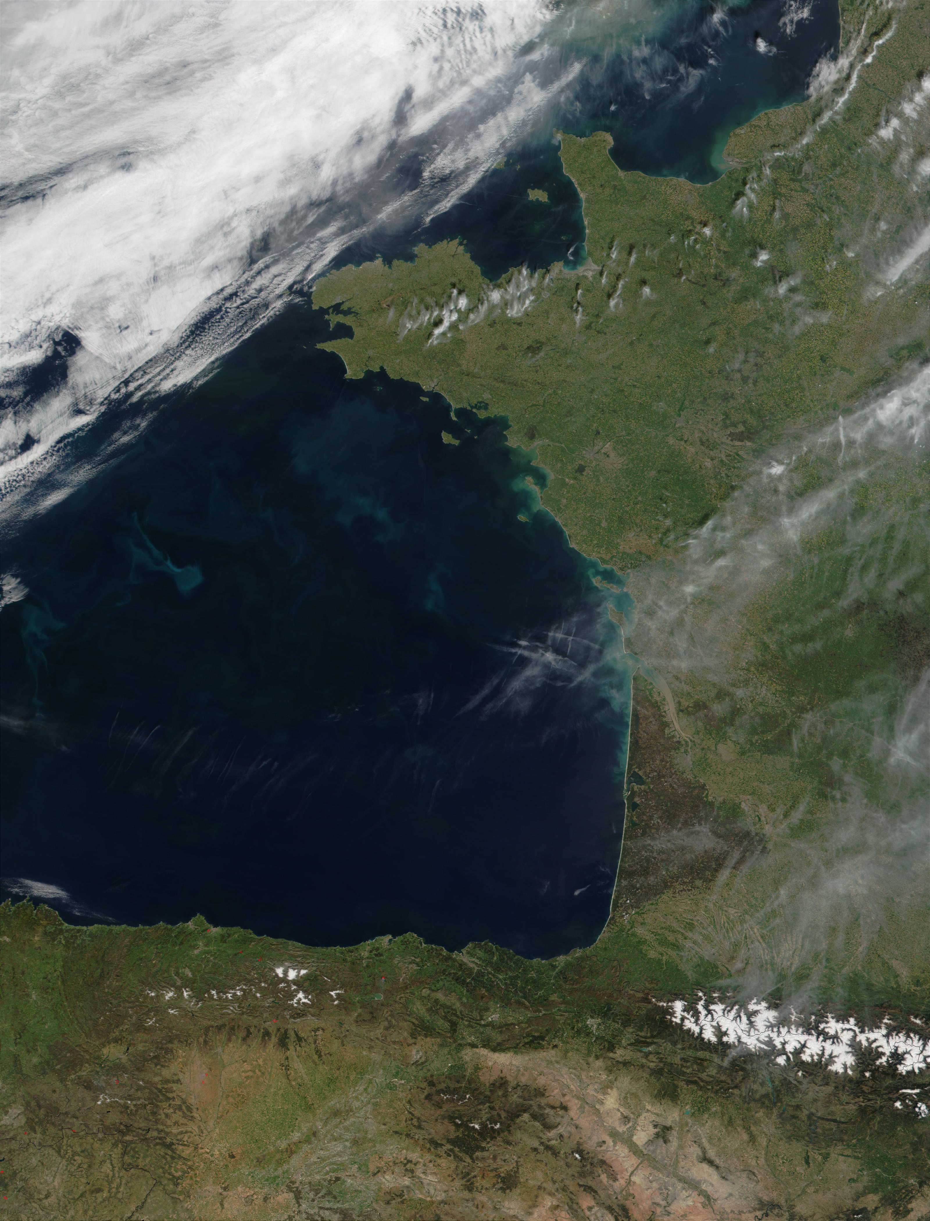 Bay of Biscay, France and Spain. Satellite: Terra. Pixel size: 250m.